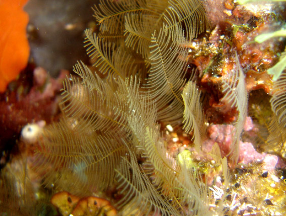 Aglaophenia sp. (Hydrozoa) (Croatia)